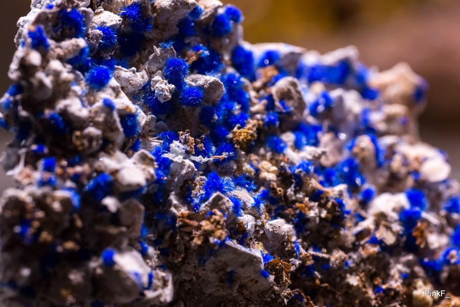 Azurite,Kamariza, Lavrion District Mines, Attika Prefecture, Greece, Stergiou Collection